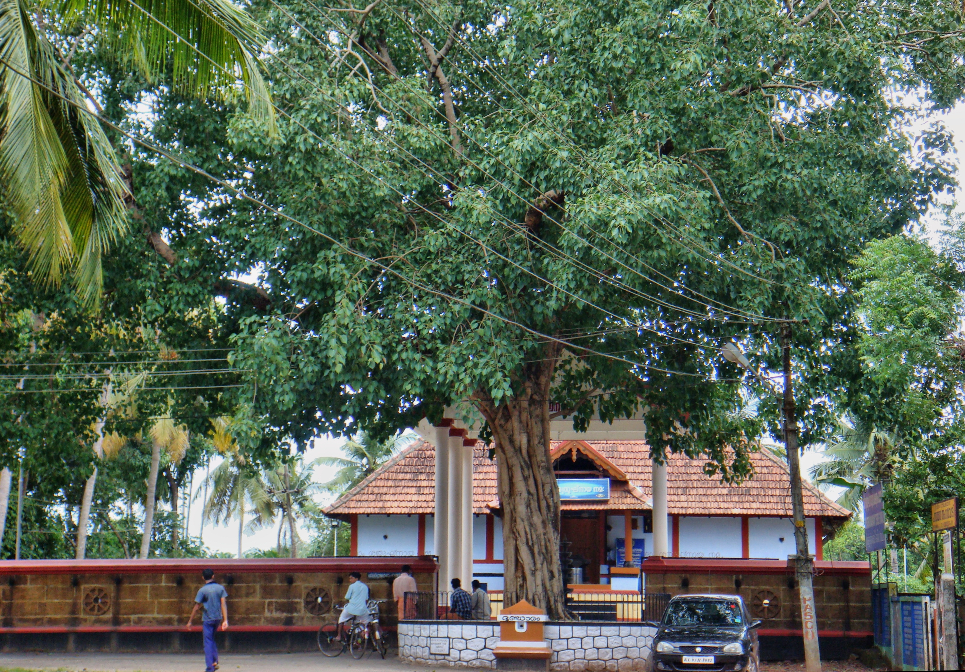 Payammal_Shathrugna_temple_kerala